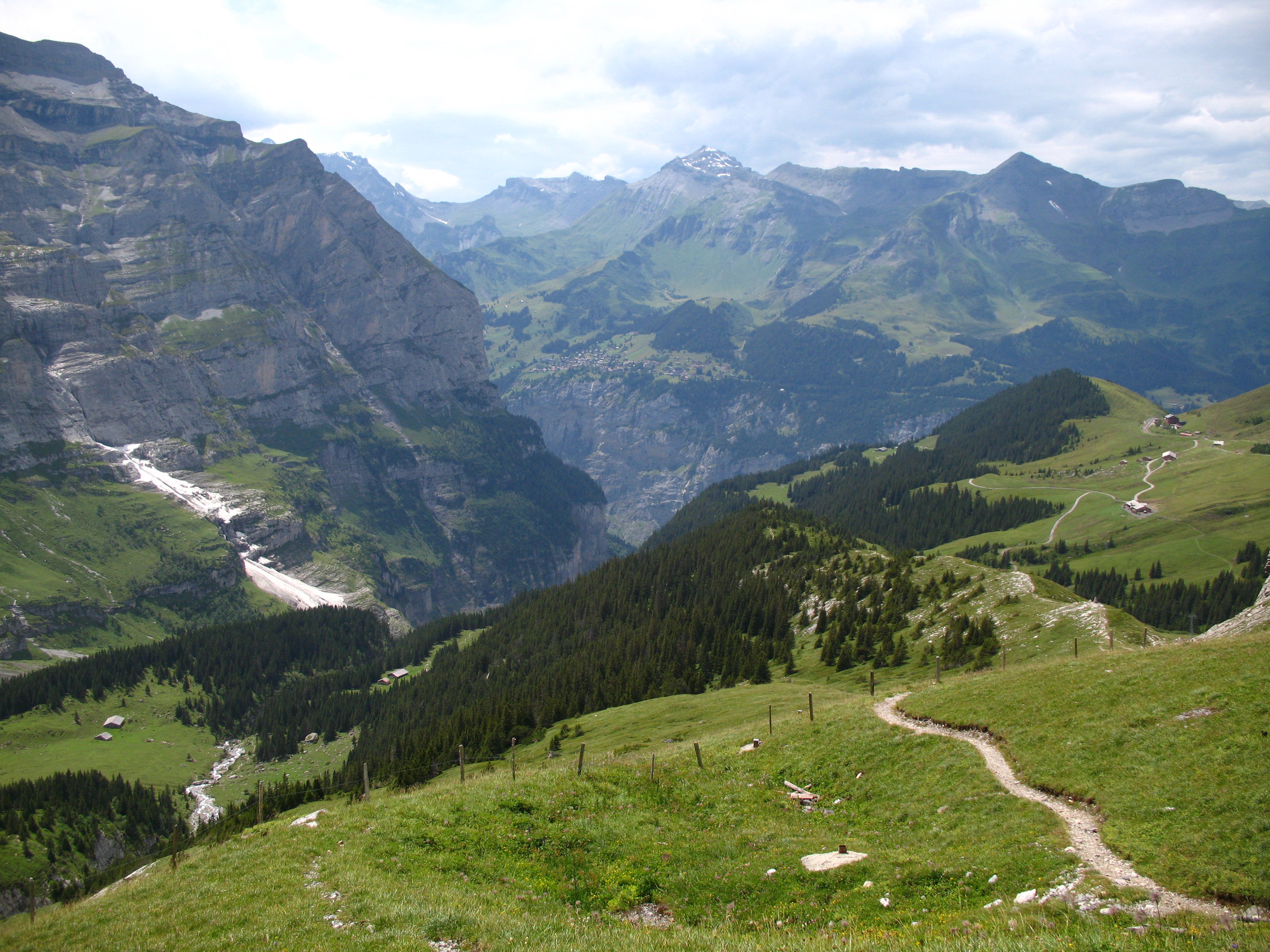 View from near the Eigergletscher Station, Switzerland